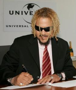 Toño Rosario signing record deal with Universal.